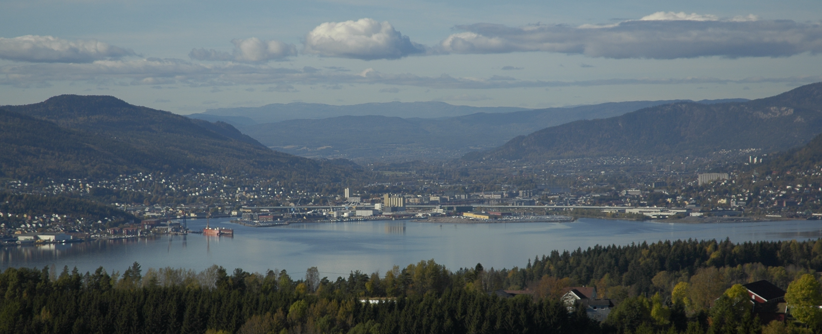 Drammen, Norway, seen from the east